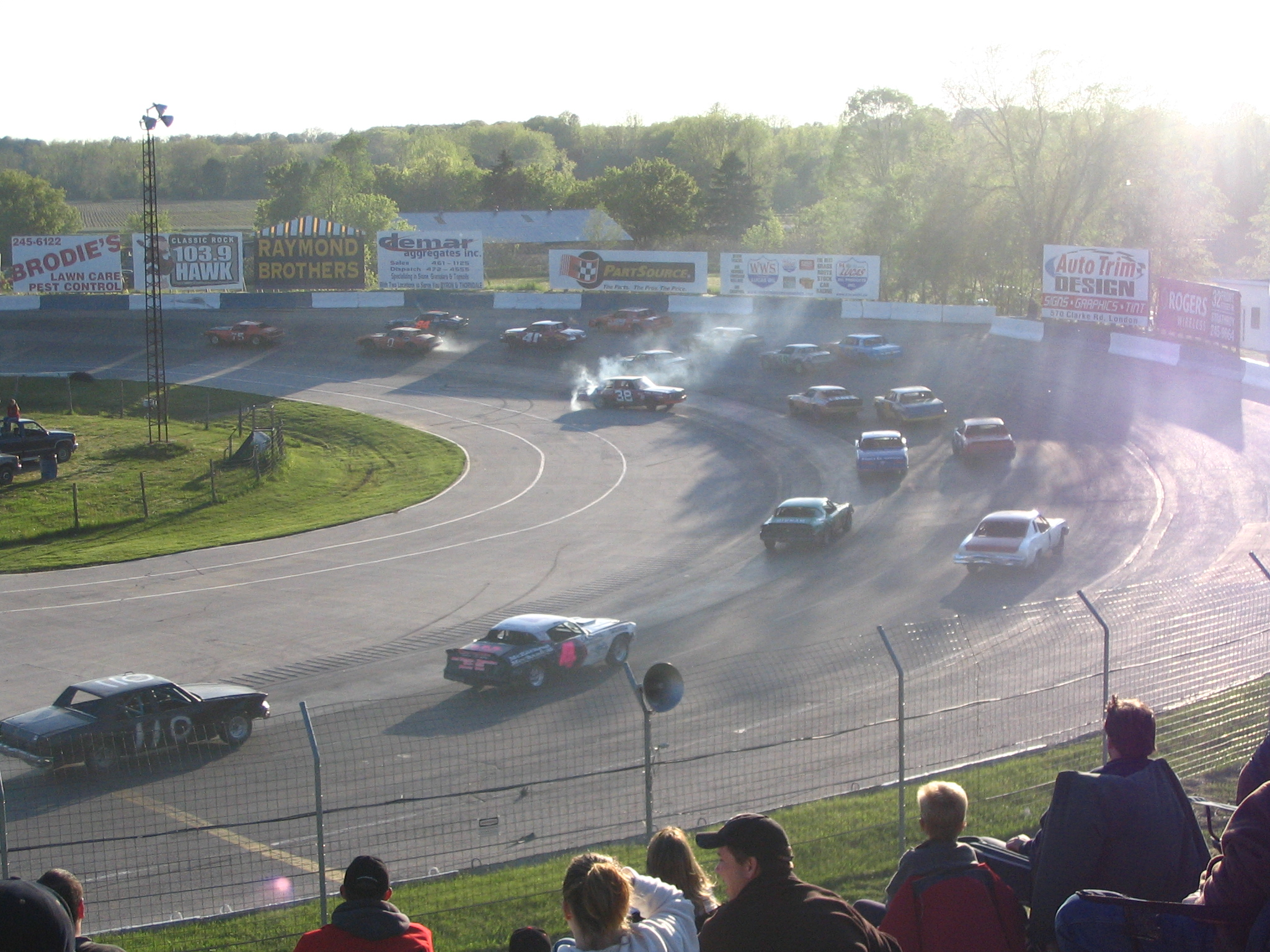 Delaware Speedway enduro race.